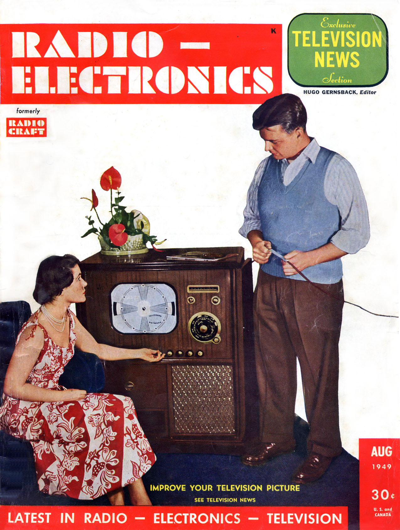 Radio-Electronics, August 1949, Volume 20, Number 11 Gernsback Publications, Inc. Publisher and Editor-in-Chief: Hugo Gernsback.